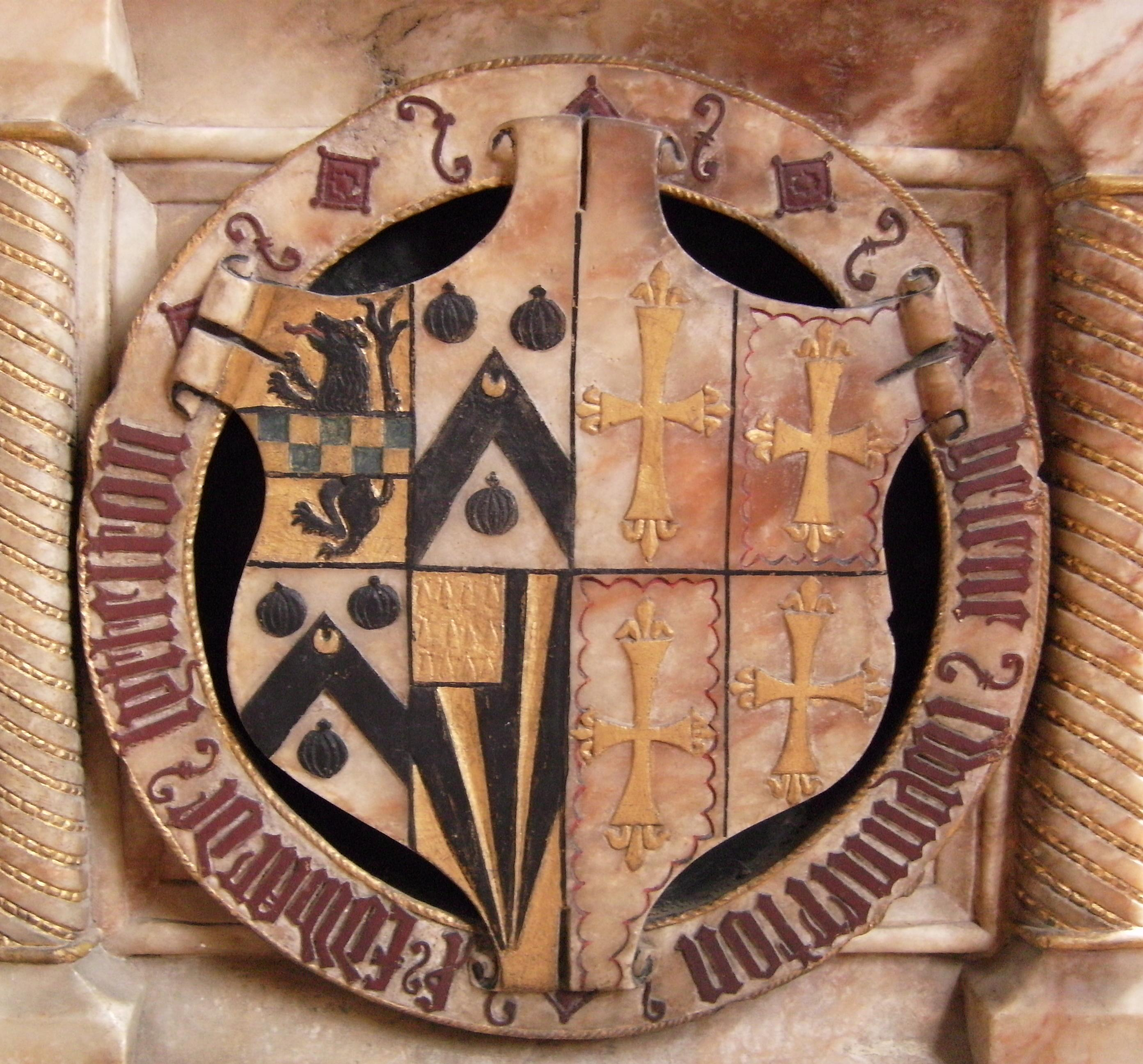 Arms Sir Edward Littleton (died 1558), impaling those of his first wife, Helen Swynnerton, on their tomb in St Michael's church, Penkridge, Staffordshire. Swinnerton has been blazoned as Argent, a cross formée, the ends fleury sable or preferably Argent, a cross pattée fleury sable but in this artwork the holiness of Helen Swynnerton is being emphasized by visual allusion to the arms of the Latin Kingdom of Jerusalem. Blazon: Baron: quarterly of 4: 1st: Or, a lion rampant sable langued gules overall a fess chequy or and azure (for Burley alias Mylde). Text per Grazebrook, Sydney, The Heraldry of Worcestershire[1]: Arms of Burley, of Bromscroft Castle, Shropshire: Argent, a lion rampant sable debruised with a fesse counter-componee or and azure. Thomas Lyttelton, (or Littleton, as his name is usually written), the learned author of the Tenures (i.e. Sir Thomas de Littleton (c.1407-1481), English judge and legal writer), married Joan Burley, daughter and co-heiress of William Burley, of Bromscroft In Edmondson's Baronagium, among the hundred and twenty-two coats quartered by Lyttelton is that of Mylde alias Burley, as above. 2nd and 3rd: Argent, a chevron between three escallops sable a crescent or for difference (for Littleton of Pillaton Hall); 4th: Or, three piles (sable, should be gules?) meeting in point a canton (should be ermine) (Basset of Drayton ?); impaling Femme: quarterly, 1st and 4th: Argent, a cross pattée fleury (or, should be sable) (for Swynnerton of Swynnerton, Staffordshire); 2nd and 3rd: Argent, a cross pattée fleury (or, should be sable) a bordure engrailed argent (for Swynnerton of Hilton?). Possibly the crosses have merely been repainted with the incorrect tincture, which offends the "rule of tincture" no metal on metal, as the arms of the Kingdom of Jerusalem. More information